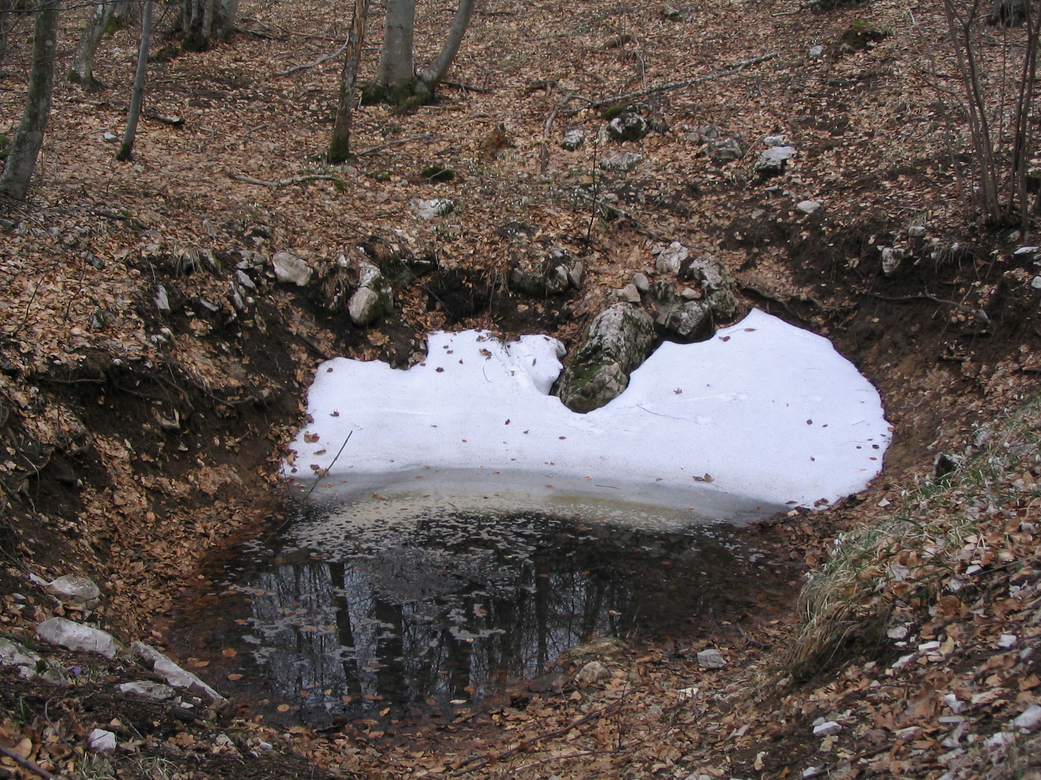 Little Karst sinkhole where clayey soil permits water stagnation.